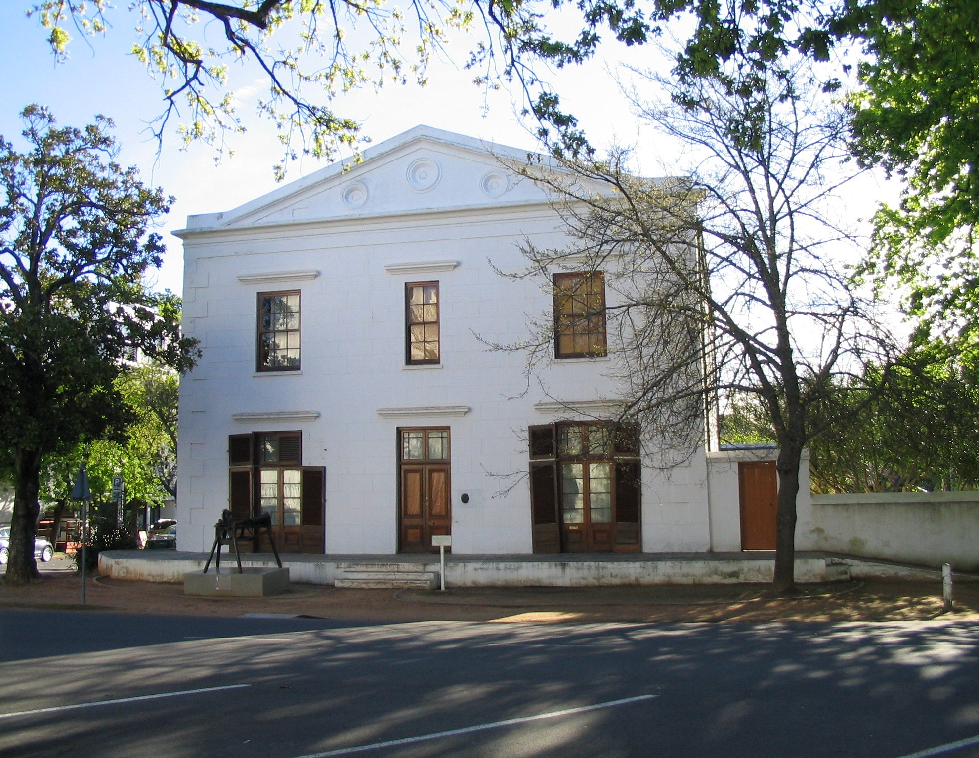 Bergh House at 11 Drostdy Street in Stellenbosch is a double-storeyed town house once owned by Professor John Murray, one of the first two professors at the Theological Seminary which is in close walking distance. It is on the corner of Drostdy and Church Streets, opposite Grosvenor House and the Dutch Reformed Mother Church. This media shows a South African Protected Site with SAHRA file reference 9/2/084/0106.